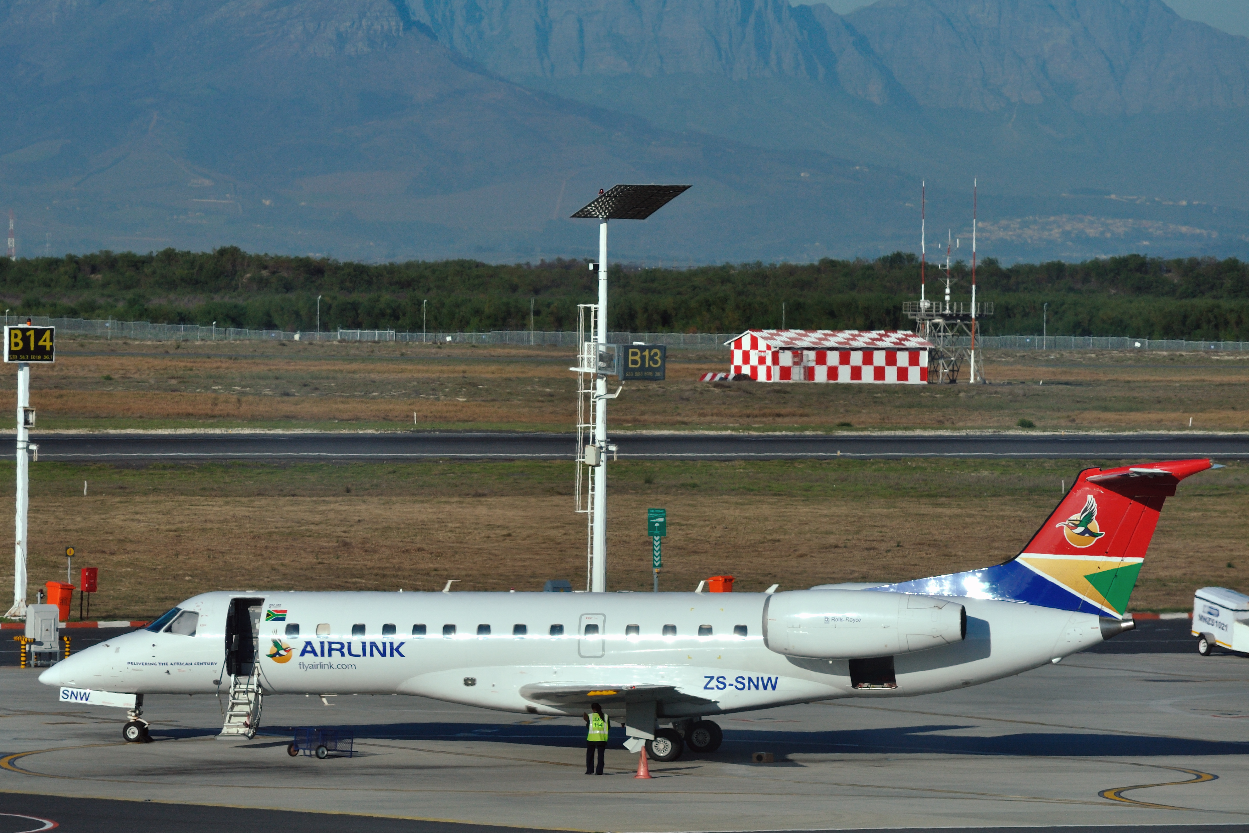 Airlink Embraer ERJ 135LR (ZS-SNW) South Africa, spotting at Cape Town International